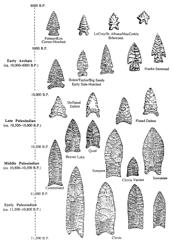 different types of Projectile points, from the palaeoindian period in the south eastern USA